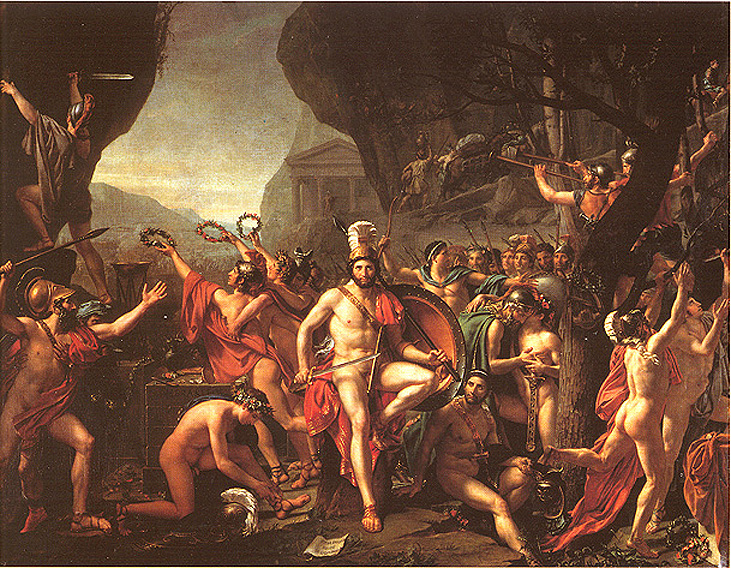 Leonidas at the Thermopylae (1814; Paris, Louvre) Painting from Jacques-Louis David